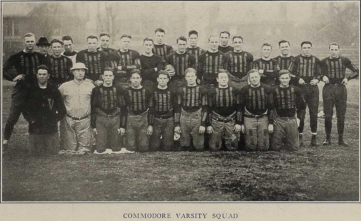 1922 Vanderbilt Commodores Varsity football team. Back row: Zerfoss, Wade, Kelly, W. Porter, Sharpe, McCullough Middle row: Bomar, Reese, Orr, Walker, Brown, Neely, Mixon, Morrow, Conyers, Sc. Neill, Wakefield, Kuhn Front row (left to right): Hardage, McGugin, Waller, Bell, Rountree, Meiers, Lawrence, S. Porter, Sa. Neill